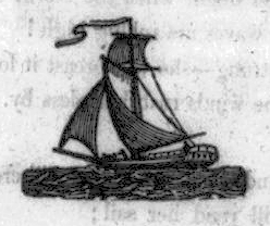 (Removed after reusableart request.)